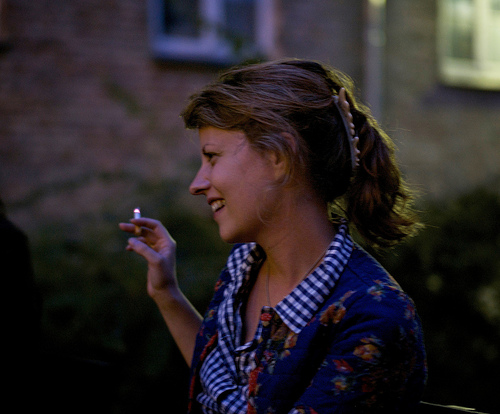 This photo was taken on August 7, 2009 in Indre Nørrebro, Copenhagen, Hovedstaden, DK, using a Leica Camera AG M8.